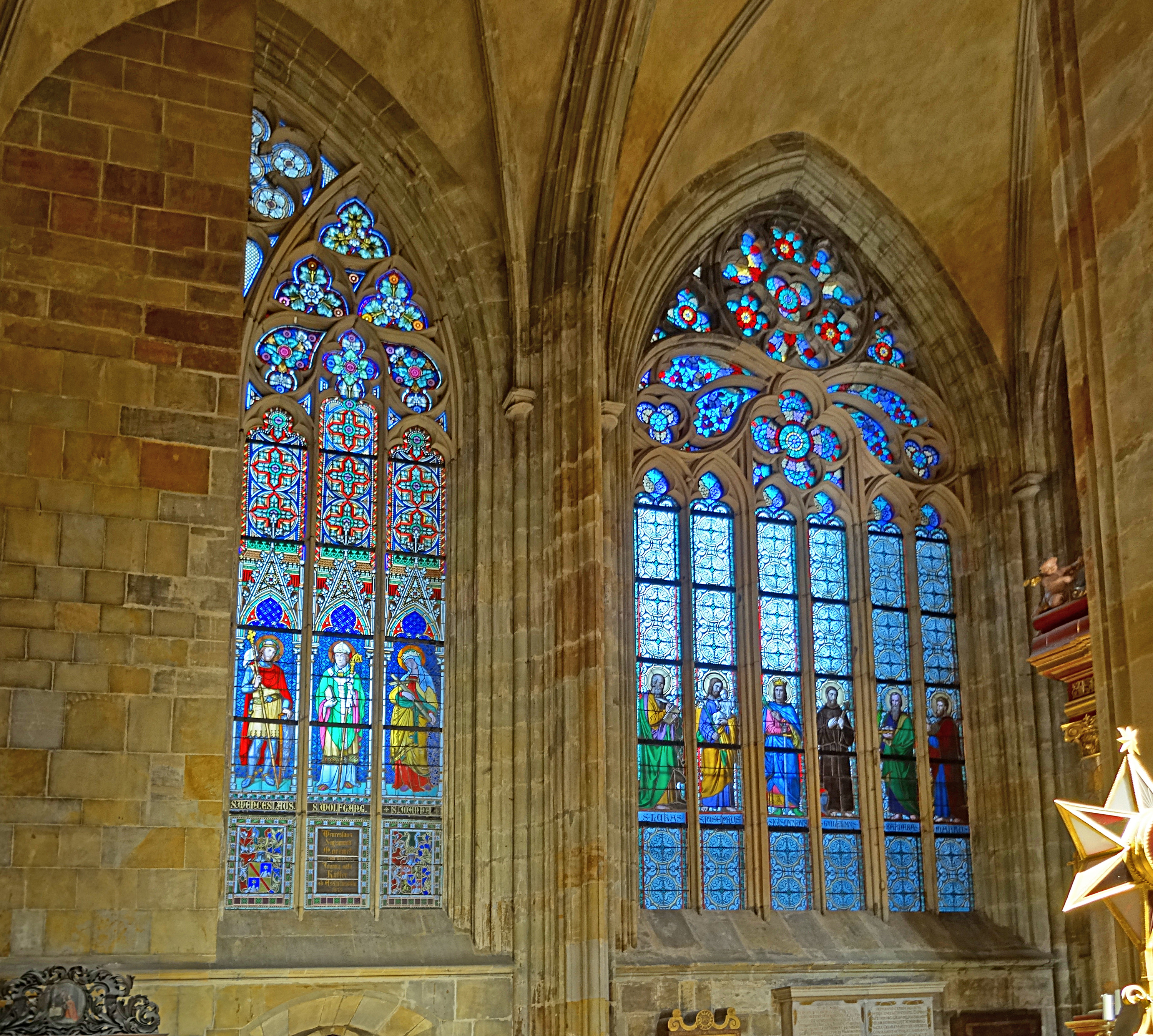 Stained glass window in the Saint Sigismund Chapel of the Prague St. Vitus Cathedral